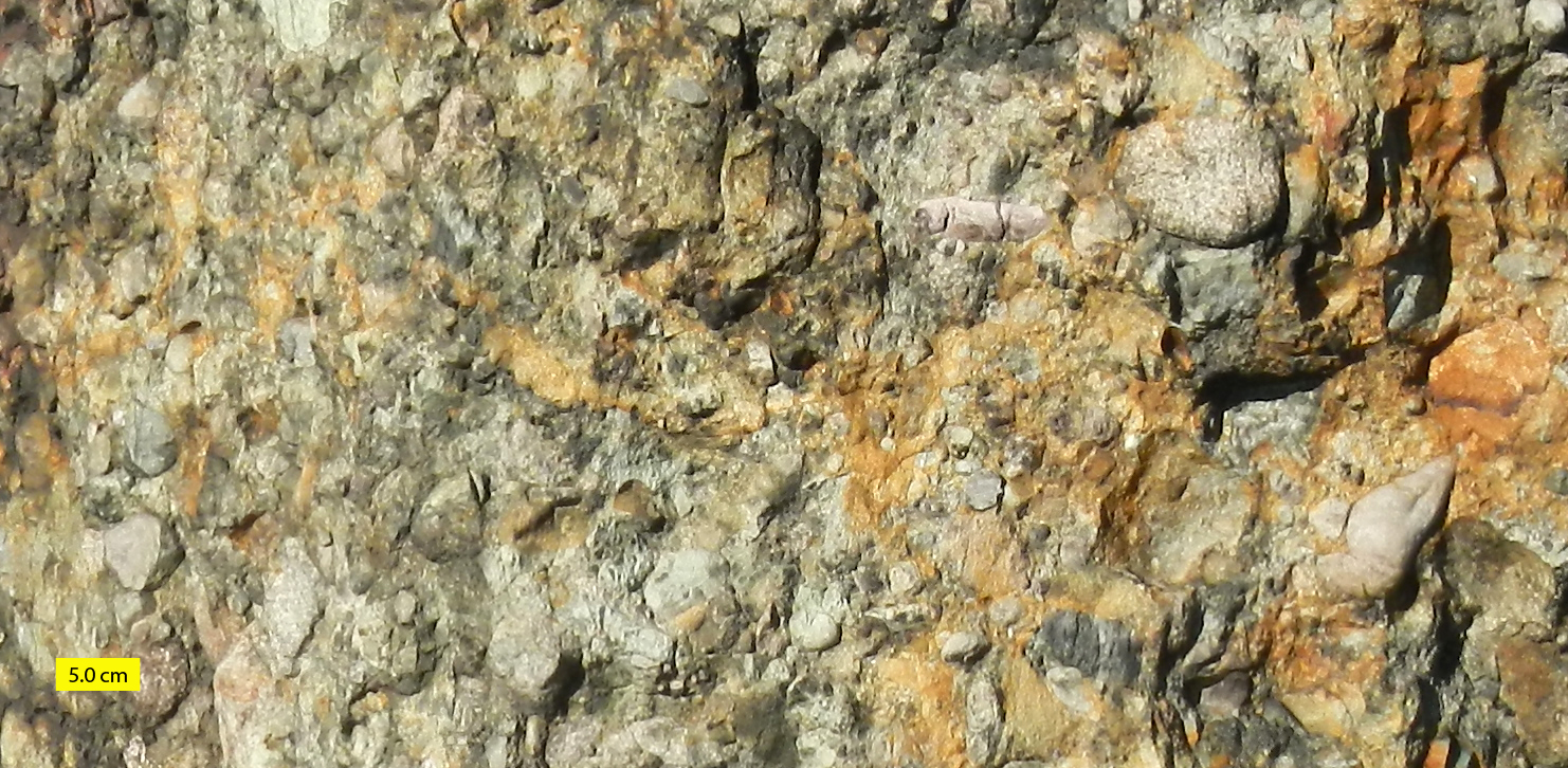 Roxbury Conglomerate used in the 20th Massachusetts Infantry monument on the Gettysburg Battlefield.